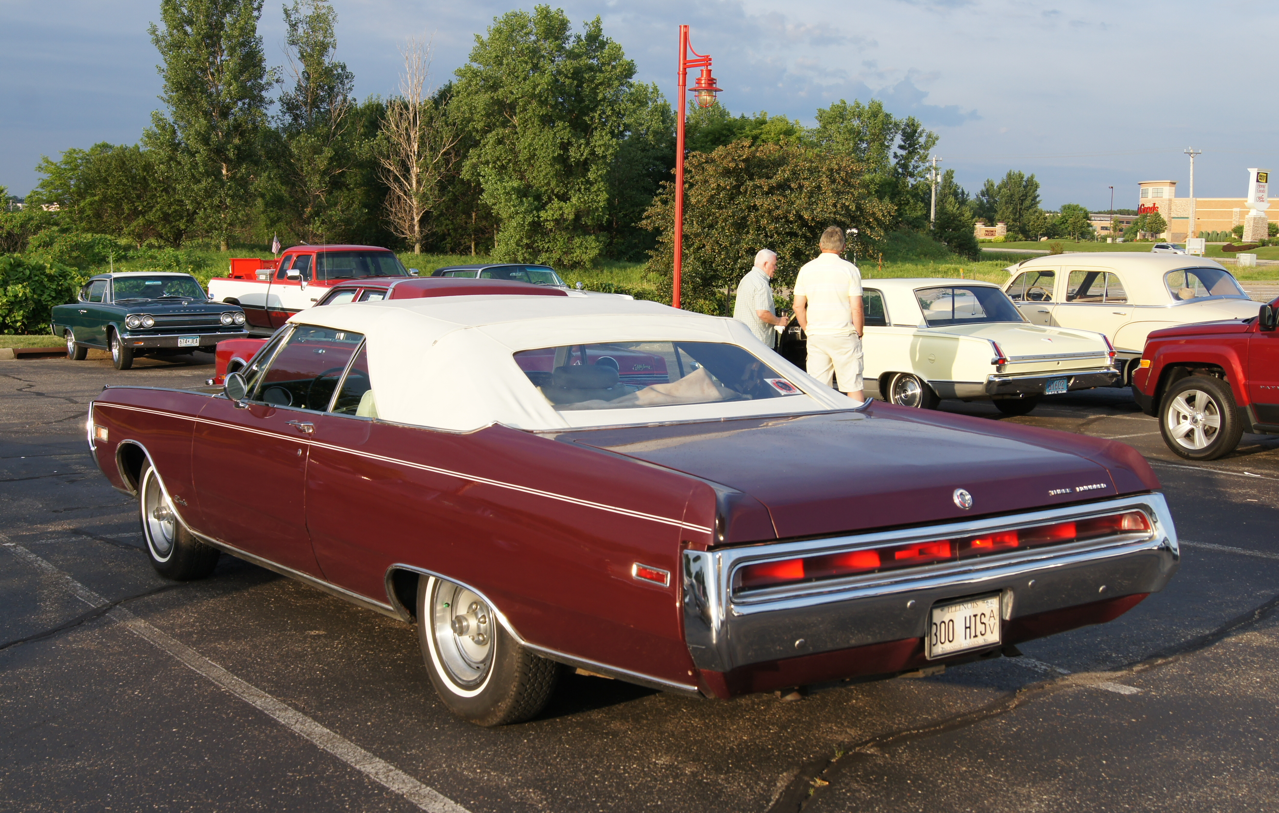 1st Combined Convention 28th Annual National DeSoto Club Convention & 44th Annual Walter P.Chrysler Club Convention July 17 - 21, 2013 Lake Elmo, Minnesota Click link below for more car pictures